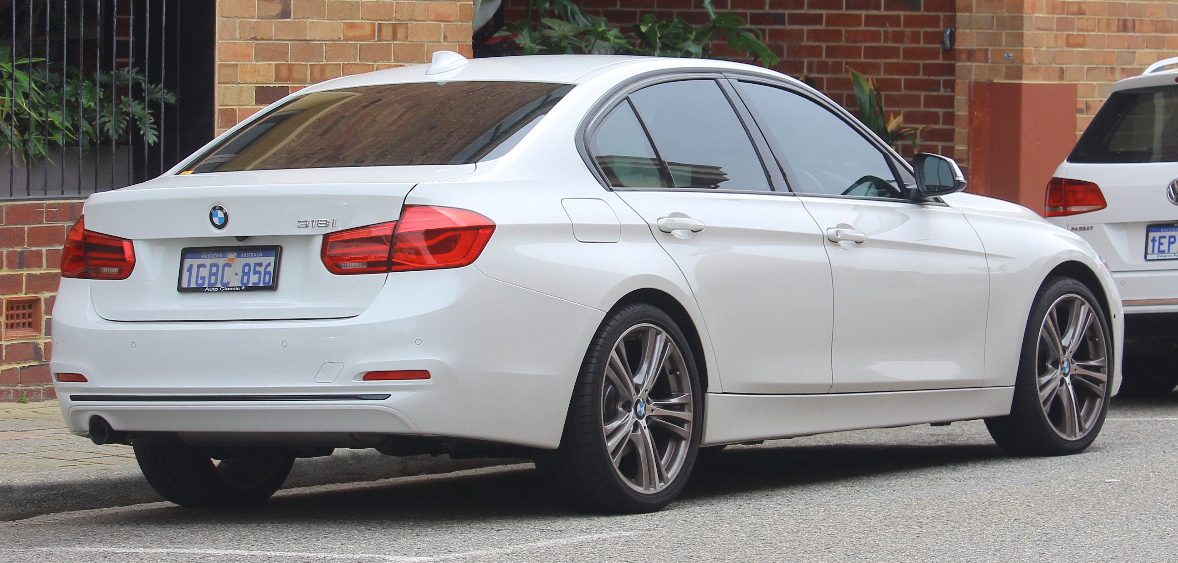 2016 BMW 318i (F30 LCI) Sports Line sedan. Photographed in Fremantle, Western Australia, Australia.